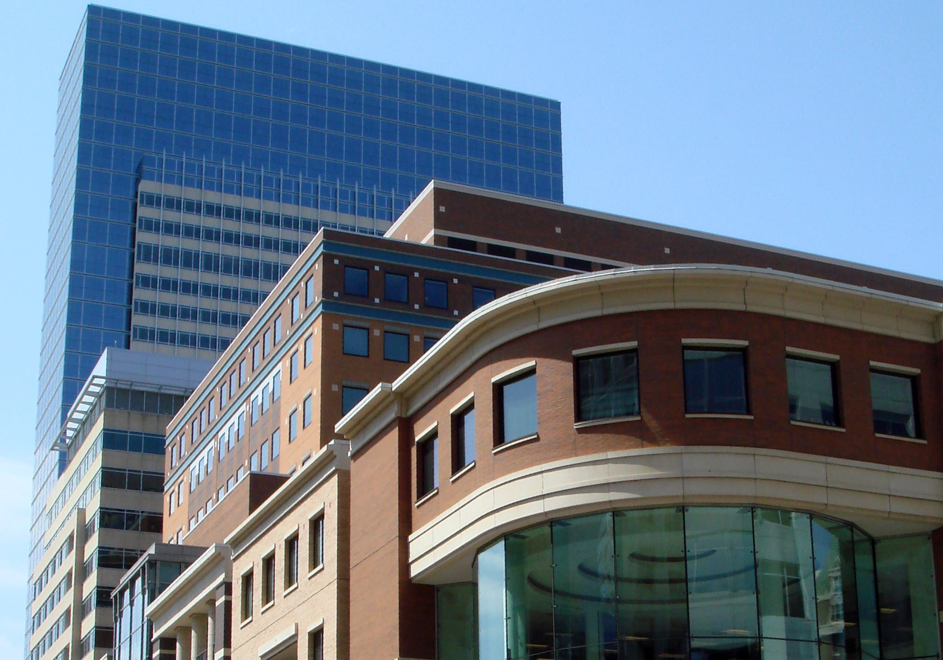 The downtown Minneapolis Target Corporation store with its corporate headquarters tower in the background, Minneapolis, MinnesotaImage has been cropped and rotated.